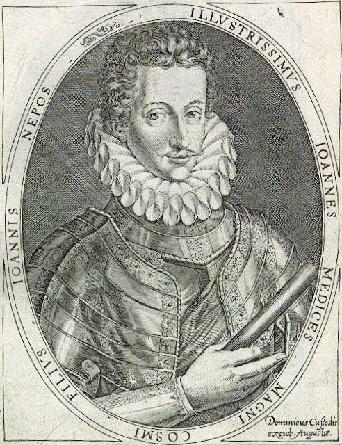 Don Giovanni de' Medici